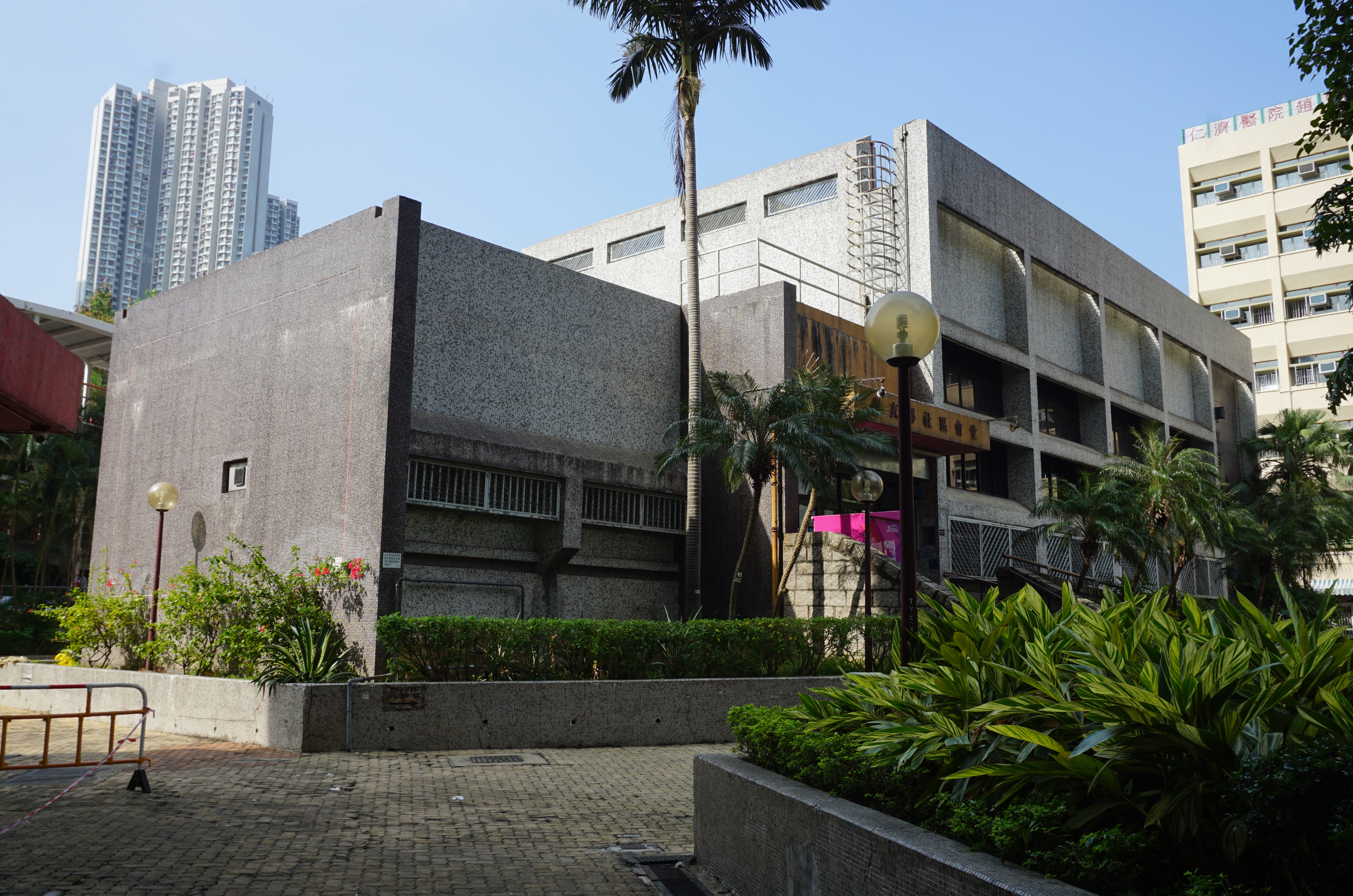 Tsing Yi Estate in Tsing Yi, Hong Kong.